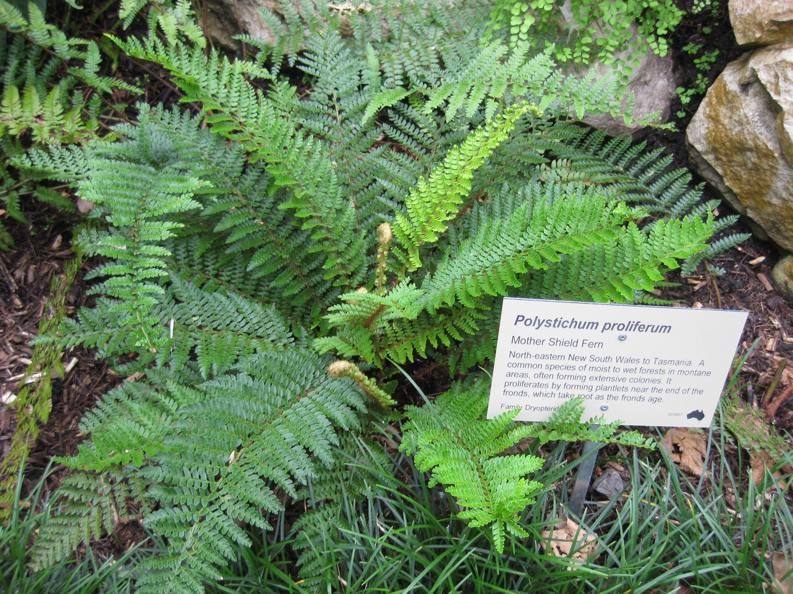 Photographed at the Royal Botanic Gardens Sydney (Australia) in January